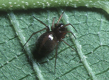 female Ummeliata insecticeps from Okinawa.